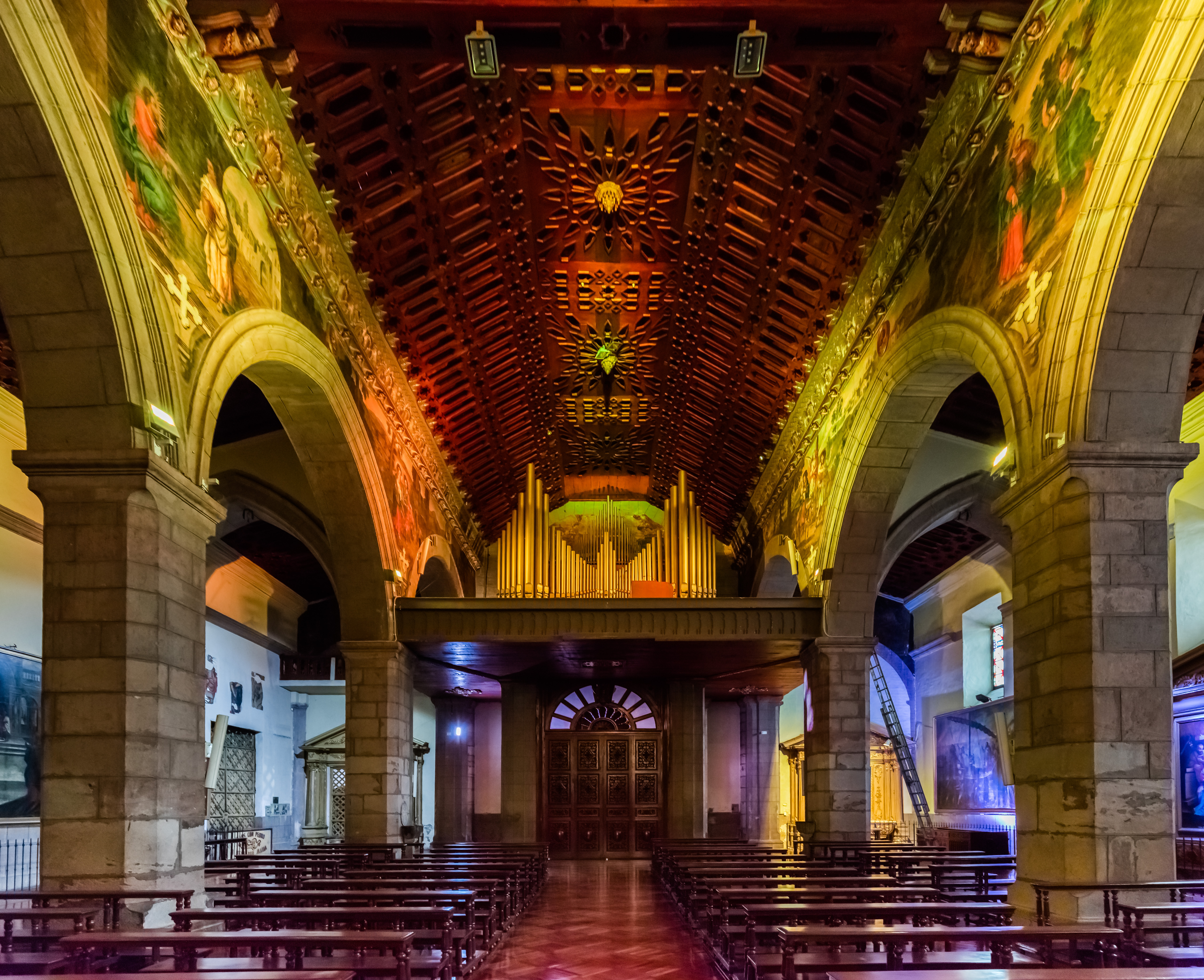 Quito Cathedral, Quito, Ecuador